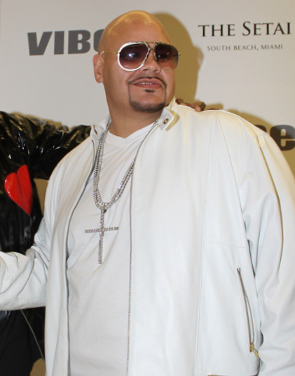 Fat Joe at the Division 1 Launch Party 2010.